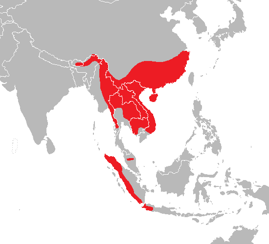 Natural range of the genus Altingia (Altingiaceae)